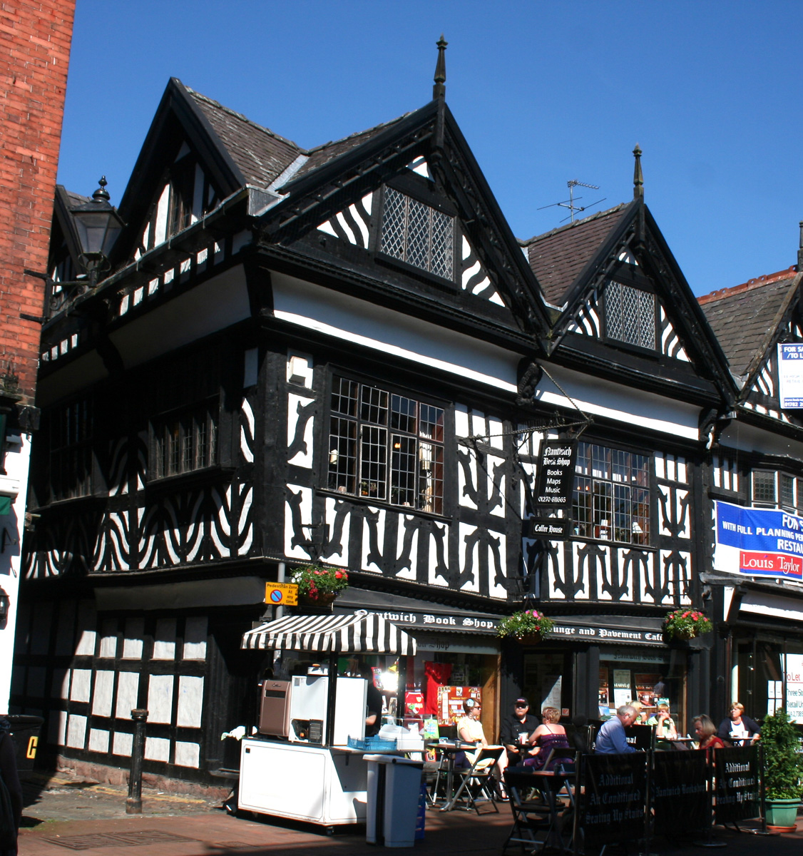 46 High Street, Nantwich, Cheshire